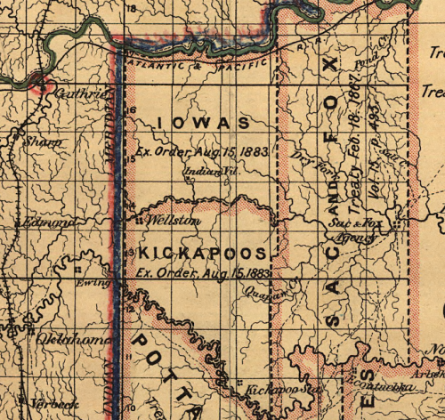 Detail of an 1887 map from the Libray of Congress and is in the public domain.)